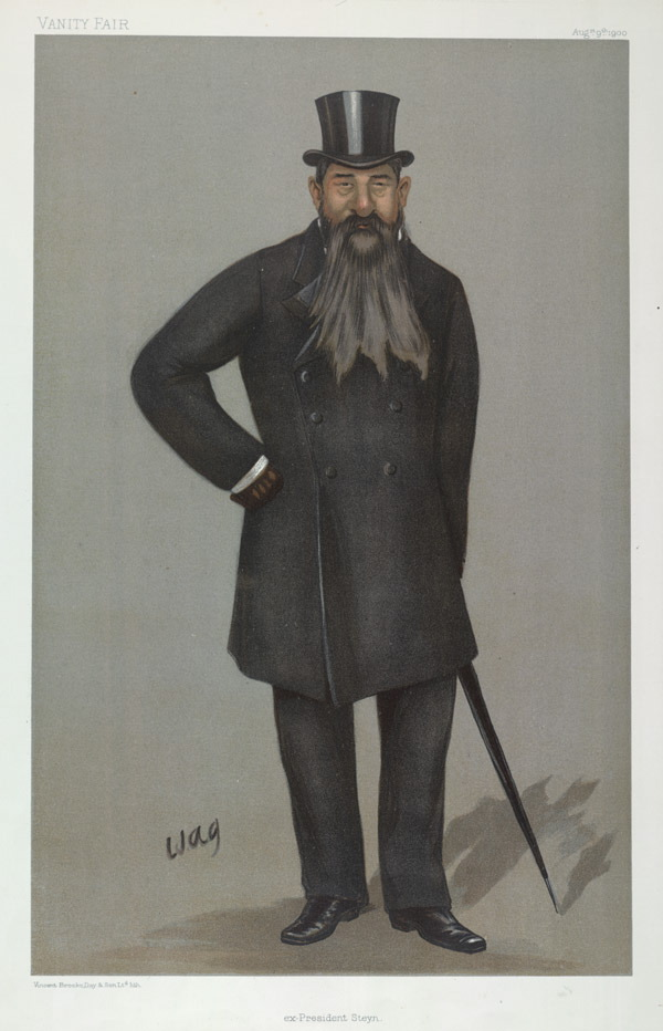 Men of the Day No.787: Caricature of Mr MT Steyn. Caption reads: "ex President Steyn"